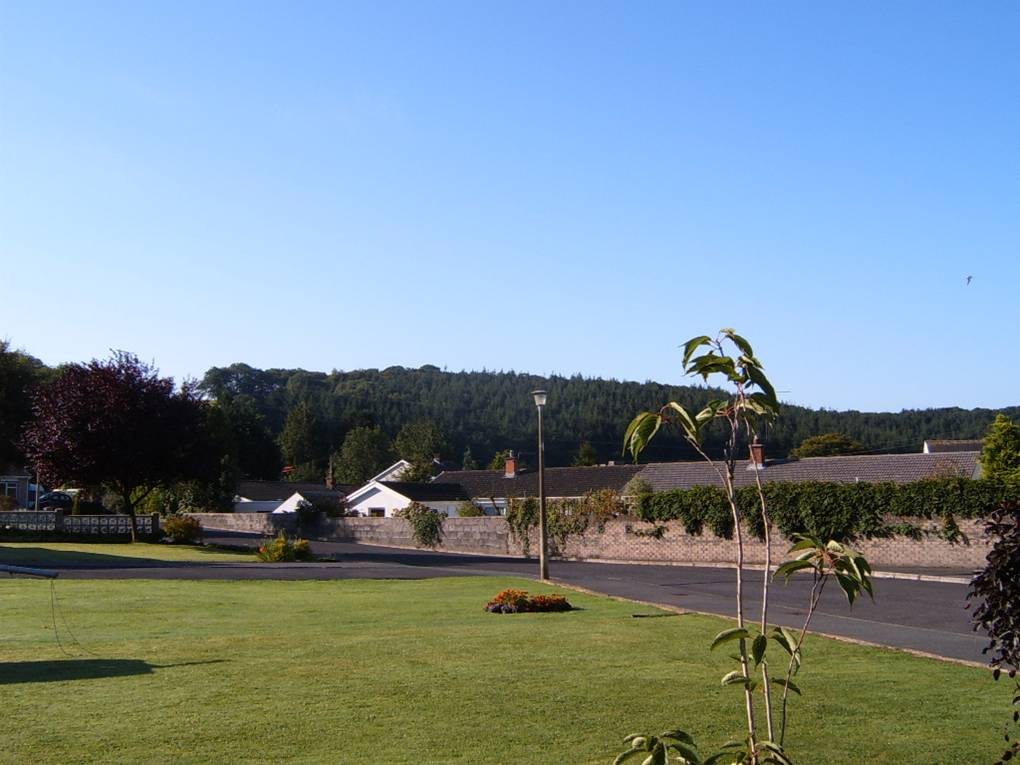 Manor Crescent on a sunny day.